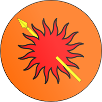 fictional coat of arms